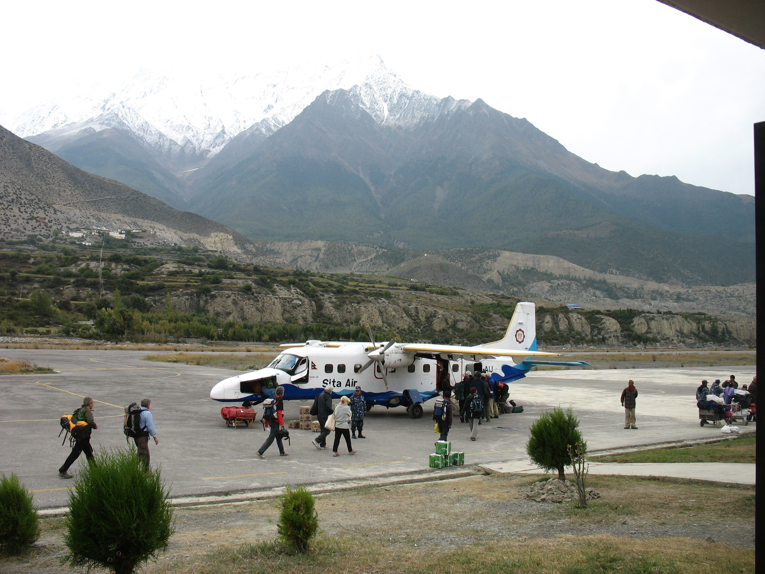 Dornier 228 at Jomsom, Nepal